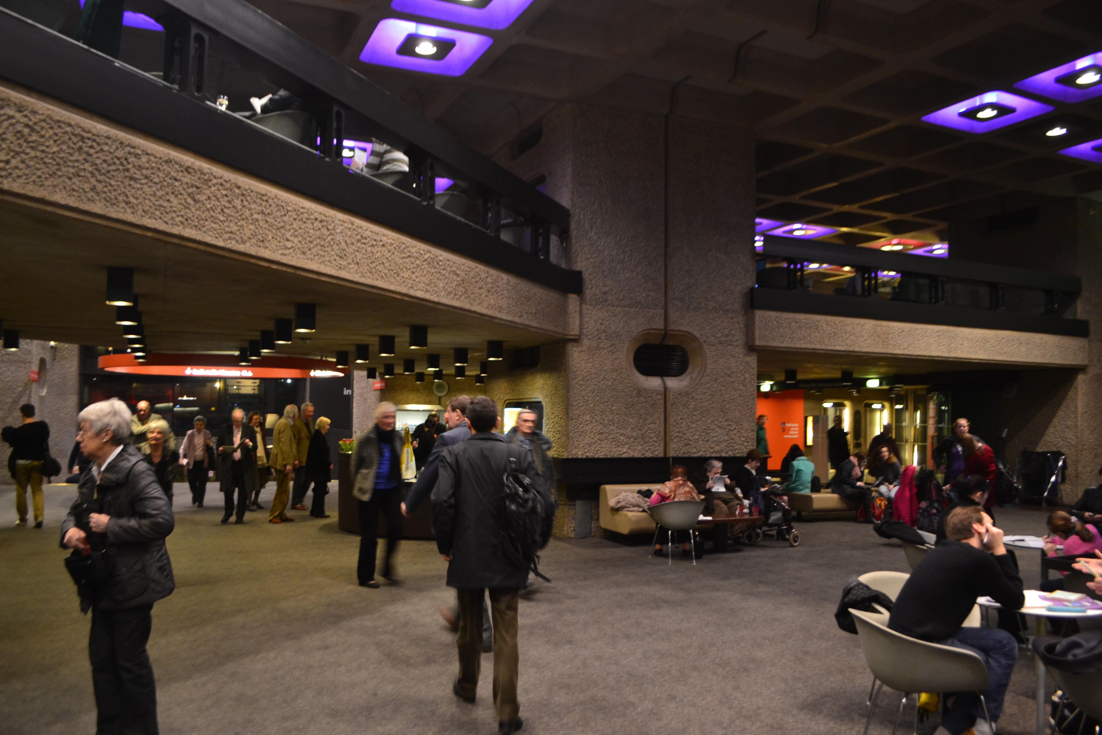 Barbican Foyer Area - London